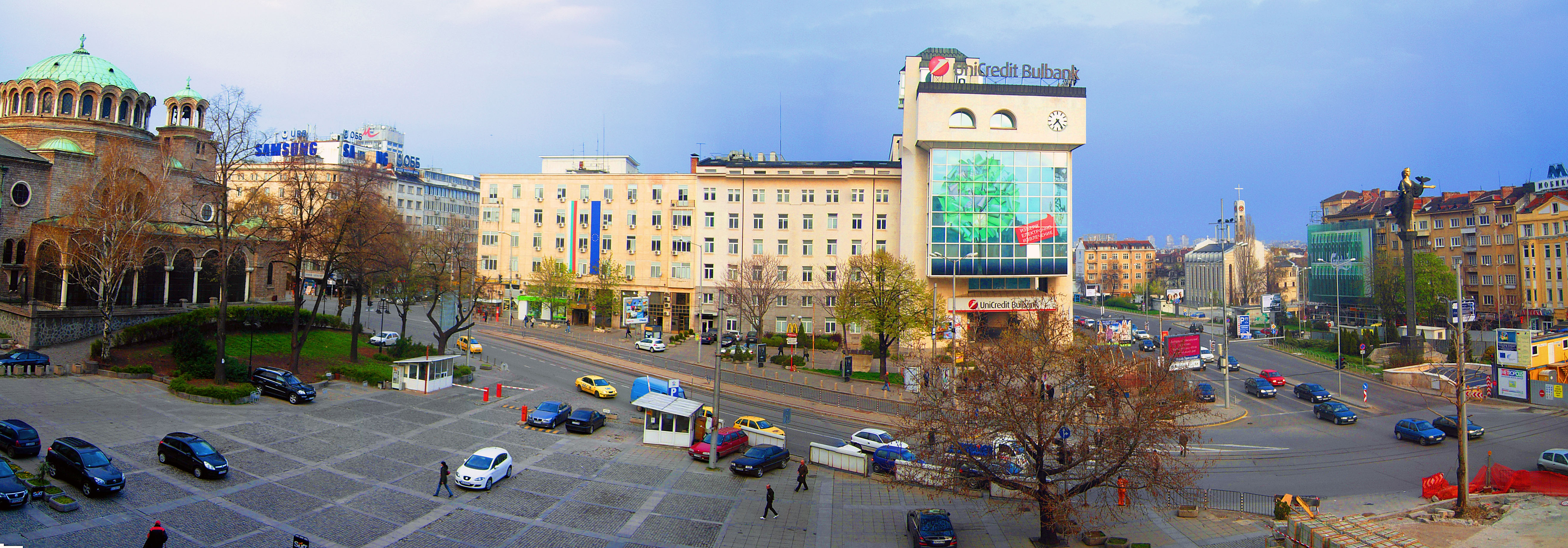 Pl. Sveta Nedelja, Sofia, Bulgaria